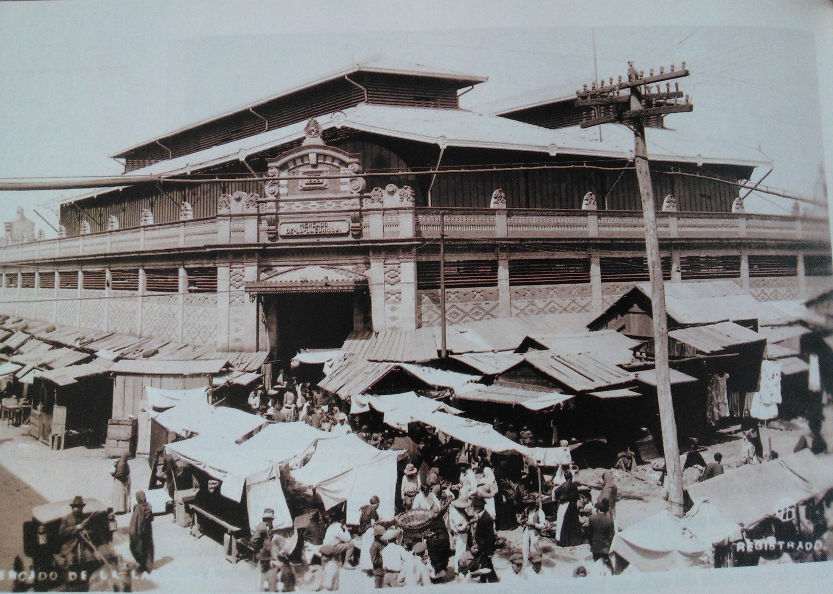 Old market of la Lagunilla